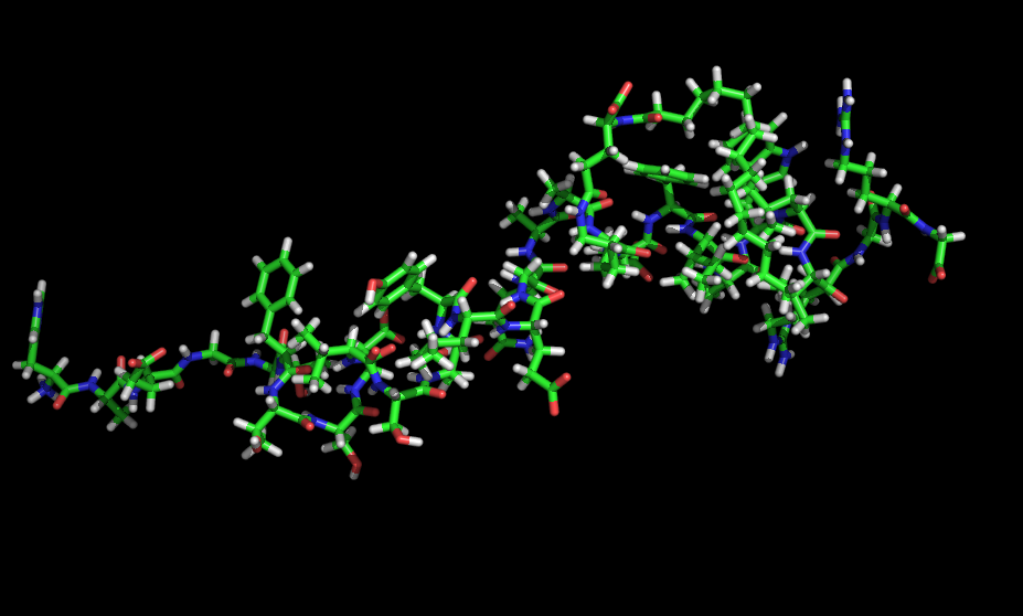 NMR structure of liraglutide. PDB entry 4apd